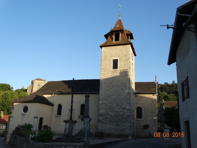 Die Kirche